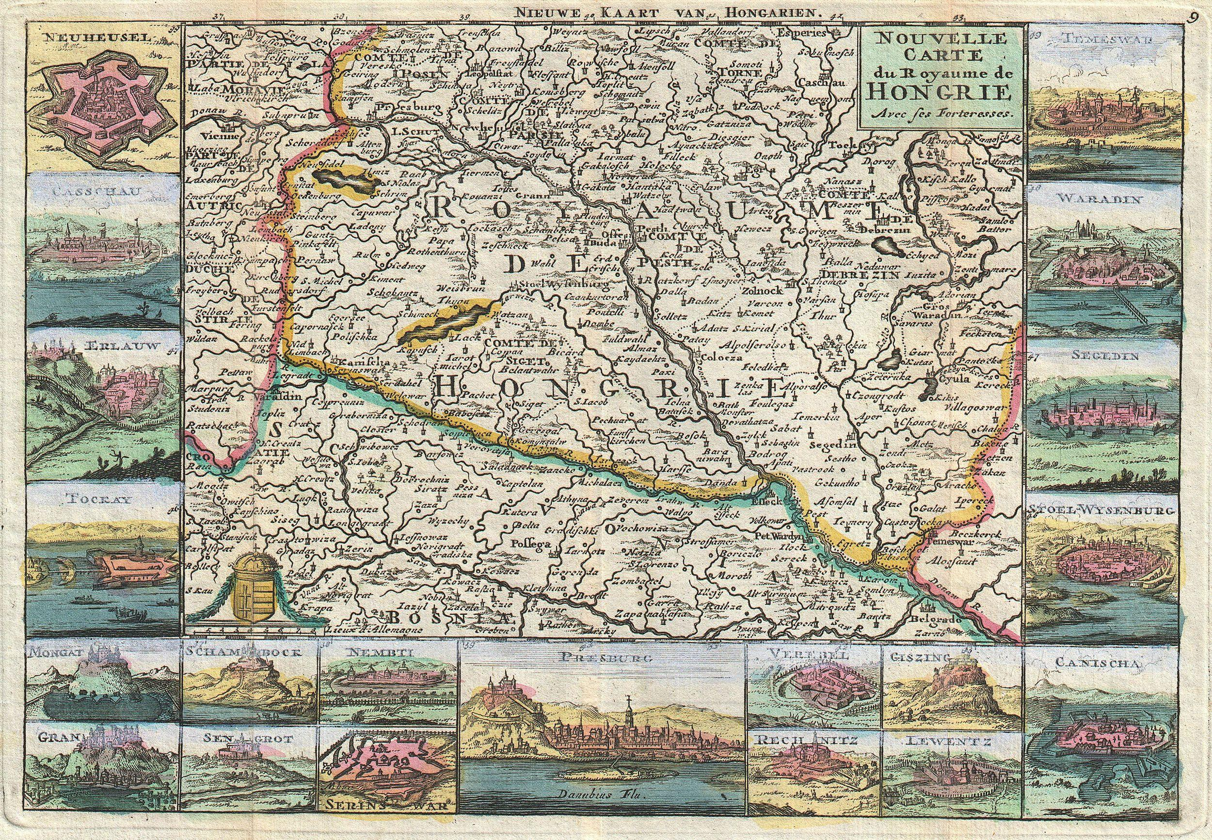 A stunning map of Hungary first drawn by Daniel de la Feuille in 1706. Covers from Moravia in the northwest south to Bosnia and east as far as Belgrade. Surrounded by twenty maps and views of important villages and fortresses in this region. From top right in a clockwise fashion these include Temeswar, Waradin, Segedin, Stoel-Wysenburg, Canischa, Giszing, Lewentz, Rechnitz, Vererel, Presburg, Nembti, Serinswar, Sengrot, Schambock, Gran, Mongat, Tockay, Erlauw, Casschau and Neuheusel. French language title in the upper right hand quadrant. Alternate Dutch language title along the upper border. This is Paul de la Feuille’s 1747 reissue of his father Daniel’s 1706 map. Prepared for issue as plate no. 9 in J. Ratelband’s 1747 Geographisch-Toneel .